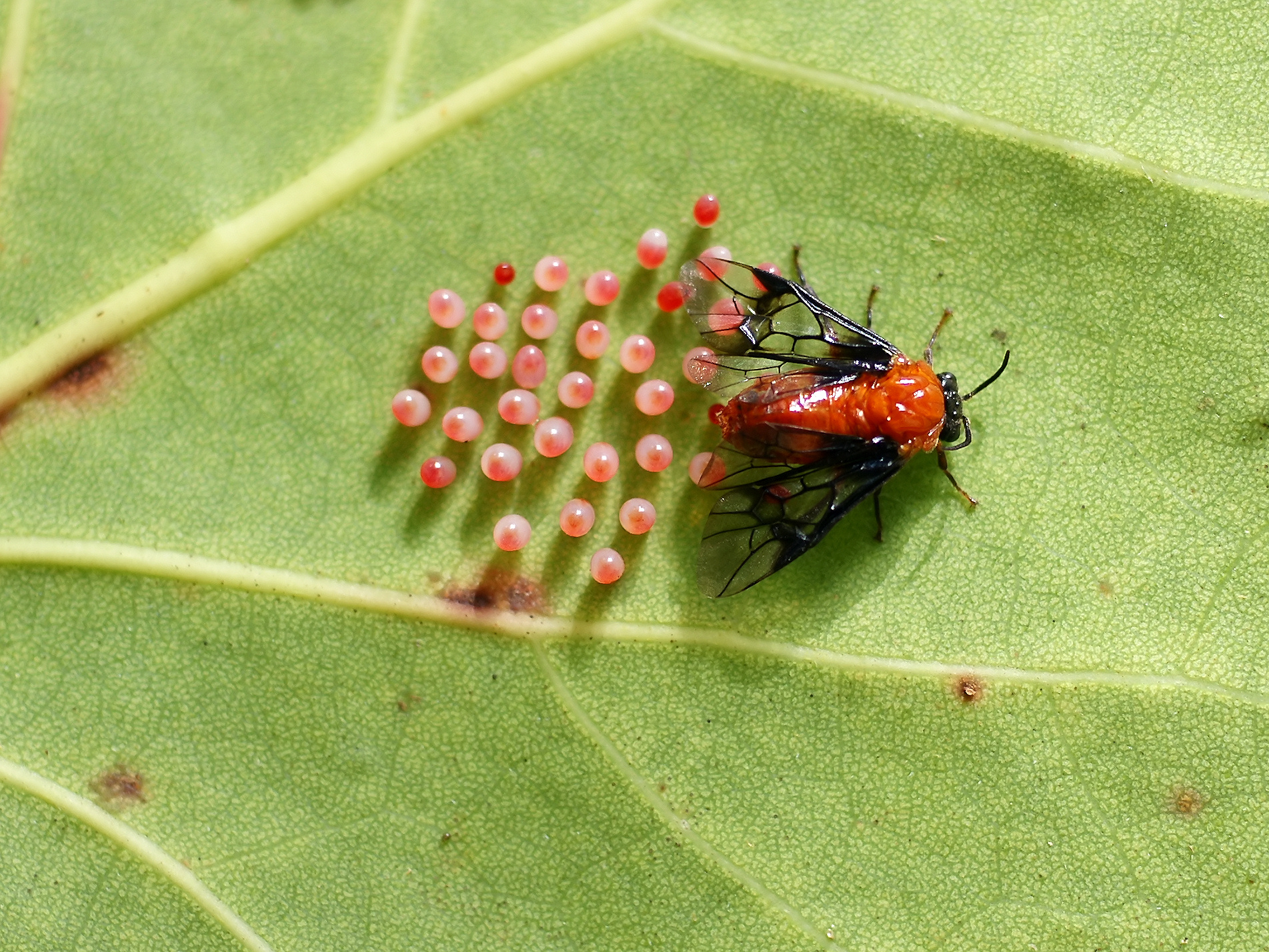 Female Seagrape Sawfly laying eggs on Coccoloba uvifera (Seagrape) at Tortuguero, Costa Rica